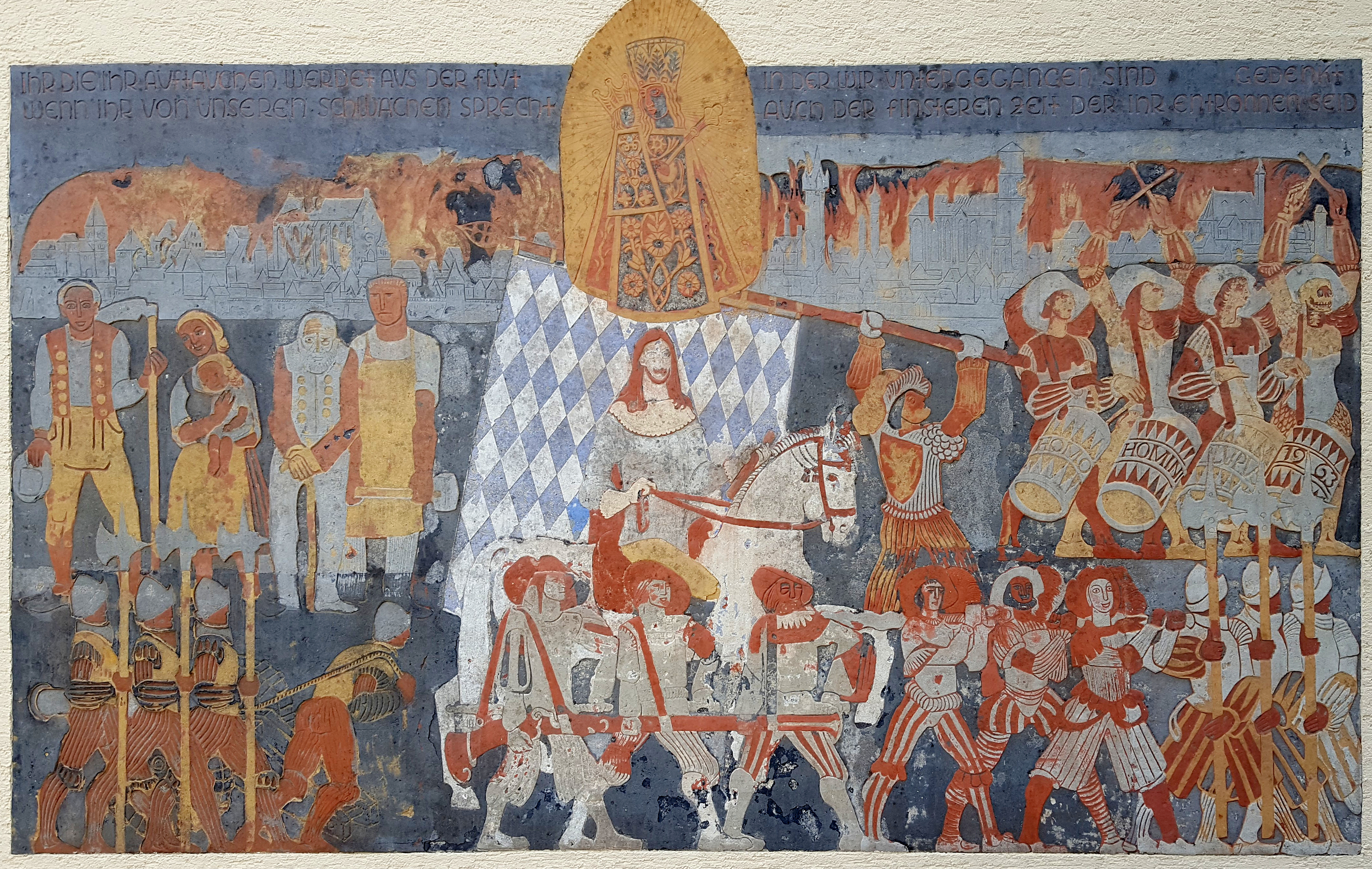 Karl Tyroller, Sgraffito, Homo Homini Lupus, 1963